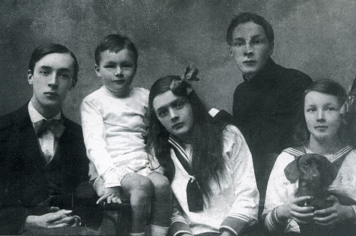 Nabokovs Vladimir, Kirill, Olga, Sergey, Elena